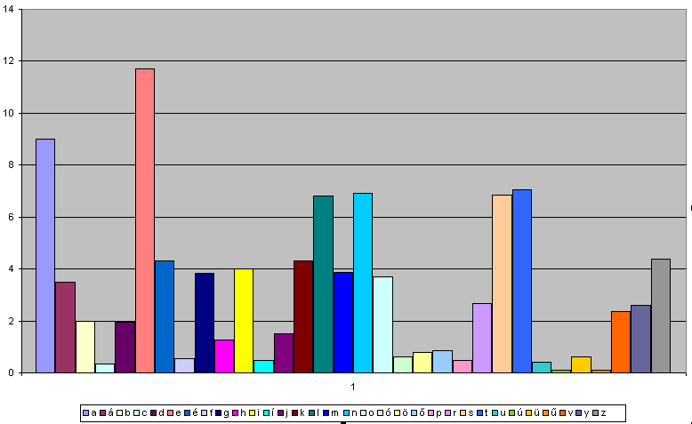 Hungarian Single letter frequencies